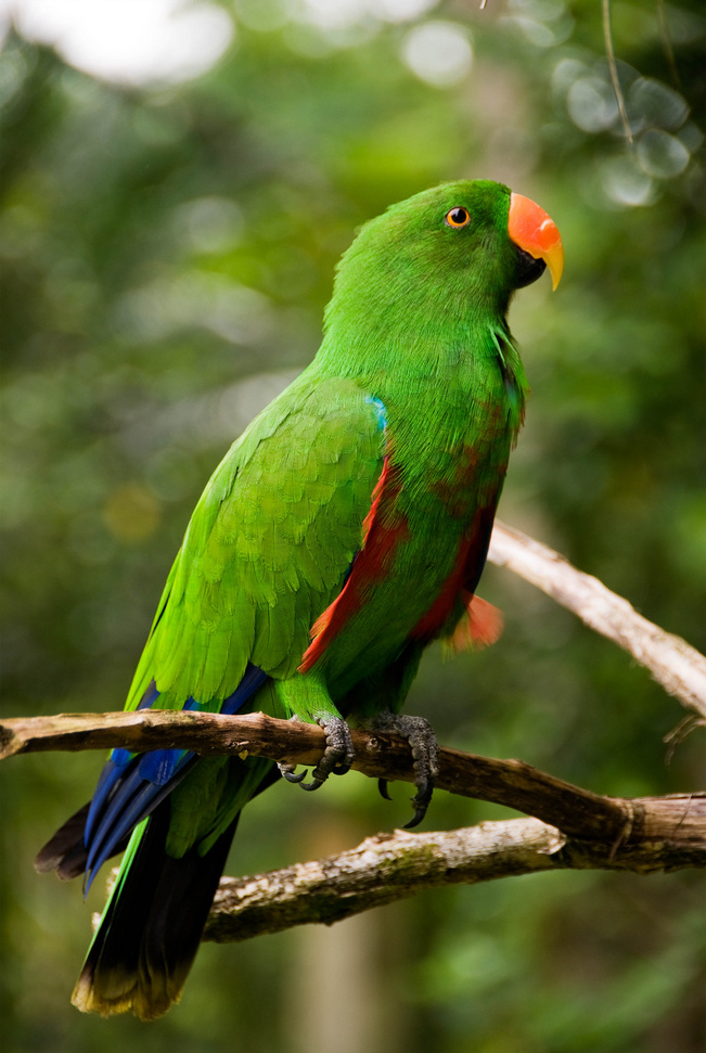 An adult male Eclectus Parrot at Malagos Garden Resort, Davao City, Philippines.